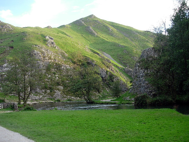 Dovedale This is a rare view of Dovedale on a fine day with only the photographer and her family disturbing the peace! Usually thronging with visitors, Dovedale is the 'iconic' limestone valley in the 'White Peak'